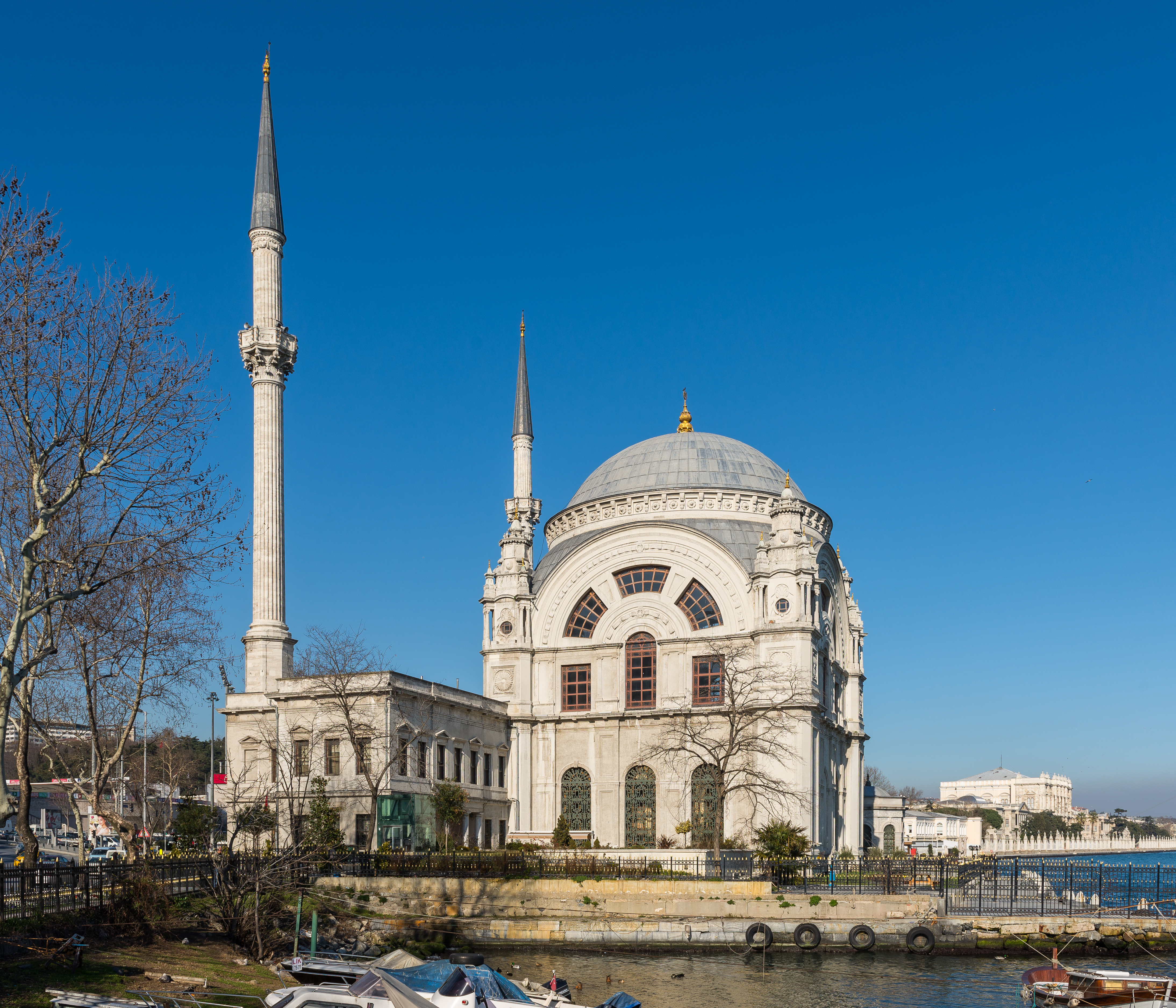 Dolmabahçe Mosque, Beşiktaş, Istanbul.